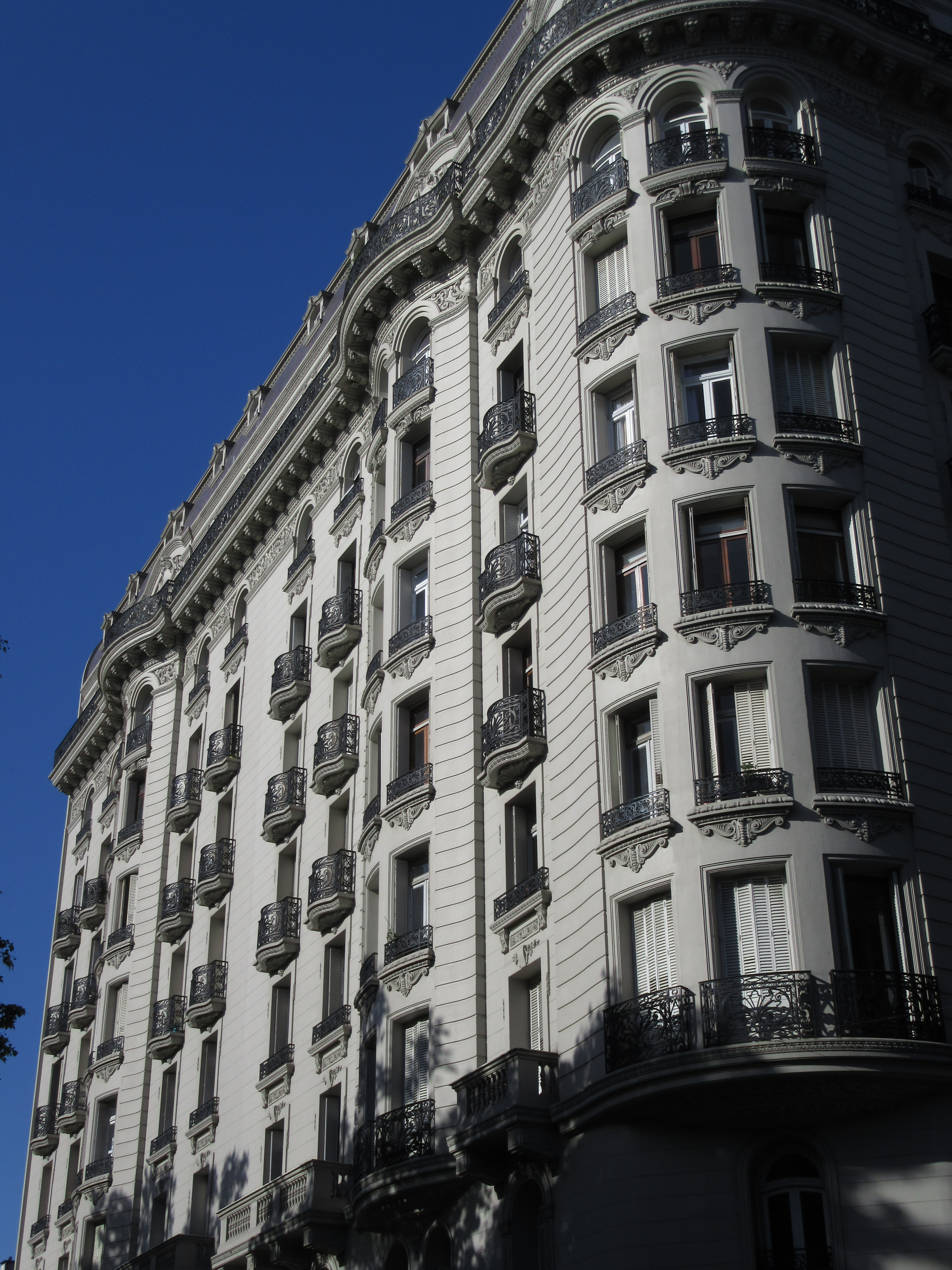 Montevideo